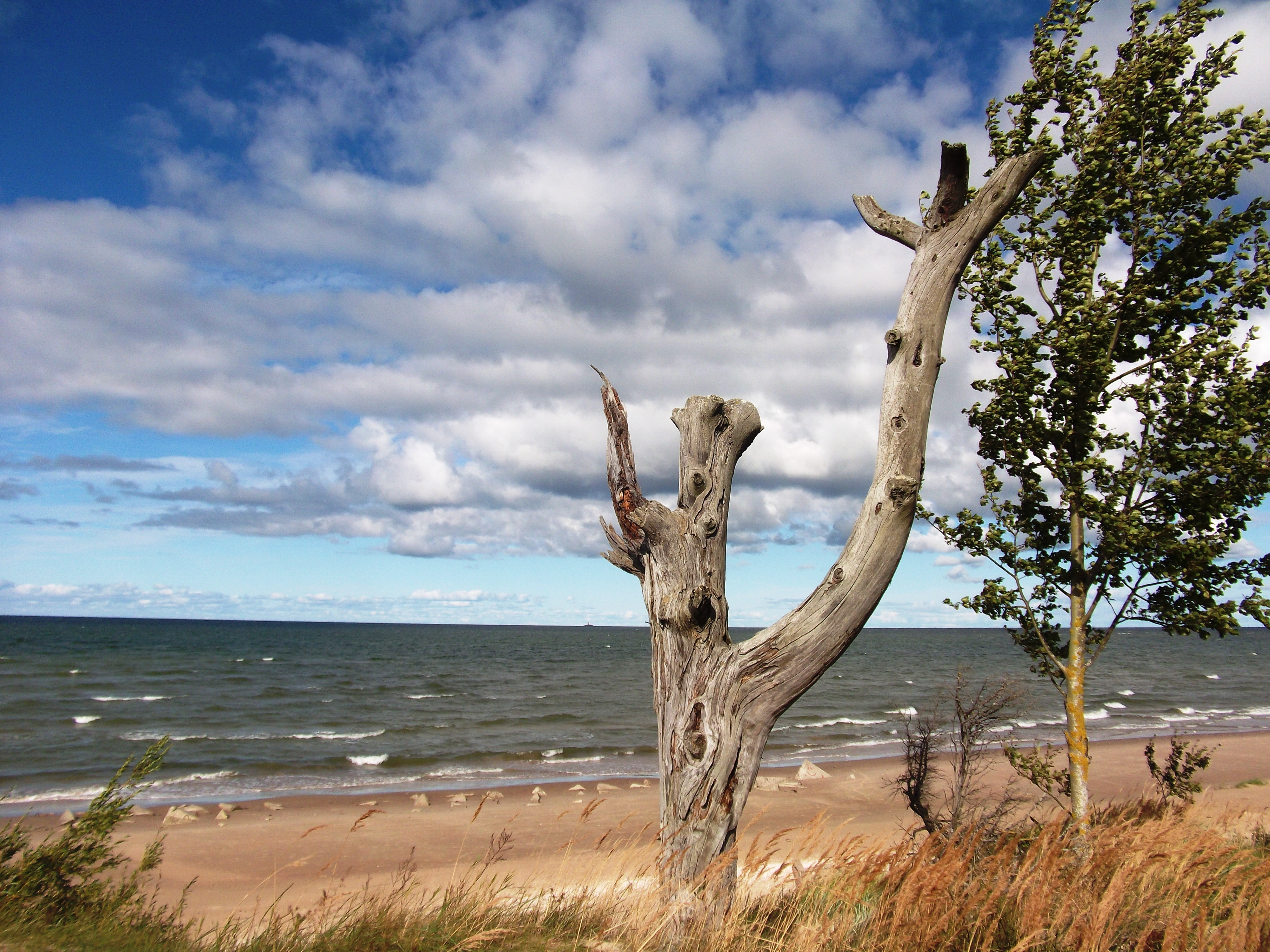 Baltic Sea at Kolka Cape